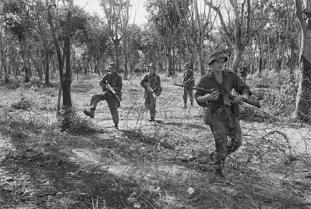 Bien Hoa Province, South Vietnam. 1968-06. Members of the 1st Battalion, The Royal Australian Regiment (1RAR), patrol the outside perimeter of Fire Support Base (FSB) Coral for signs of the enemy following several attacks on the base. The battalion was taking part in Campaign Toan Thang against communists who had been attacking Saigon and surrounding areas. Note the low wire entanglement fence.